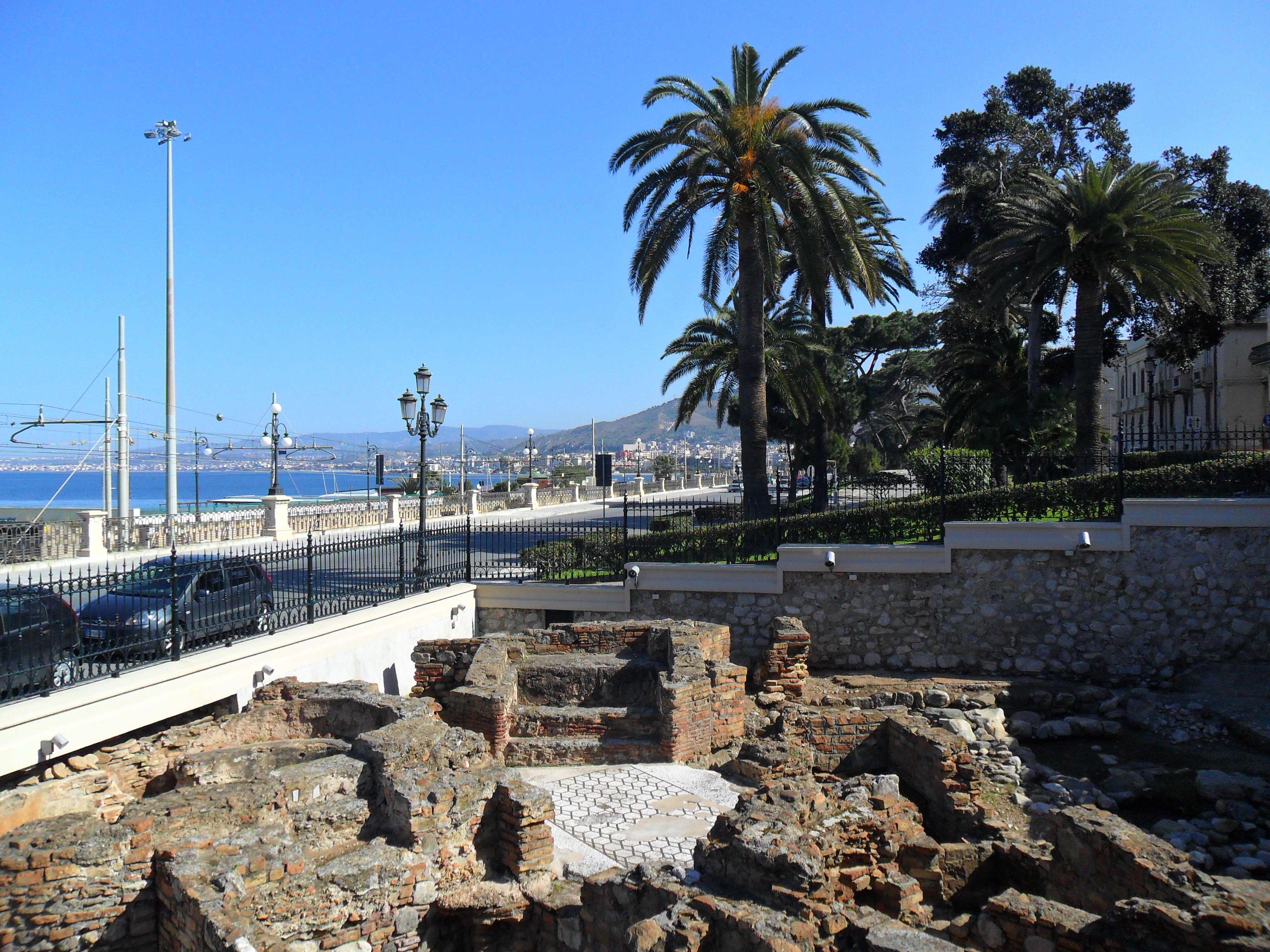 Archaeological excavations of the Roman baths